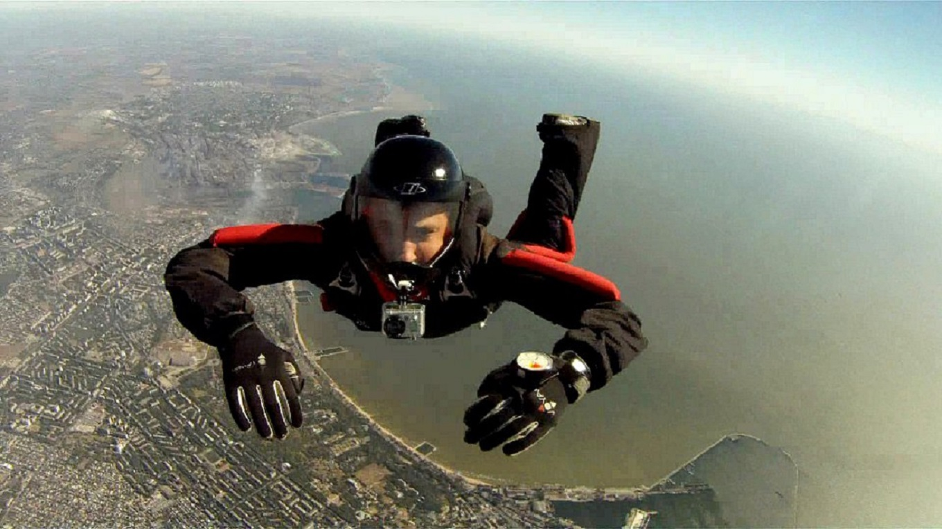 Dobromir Slavchev skydive